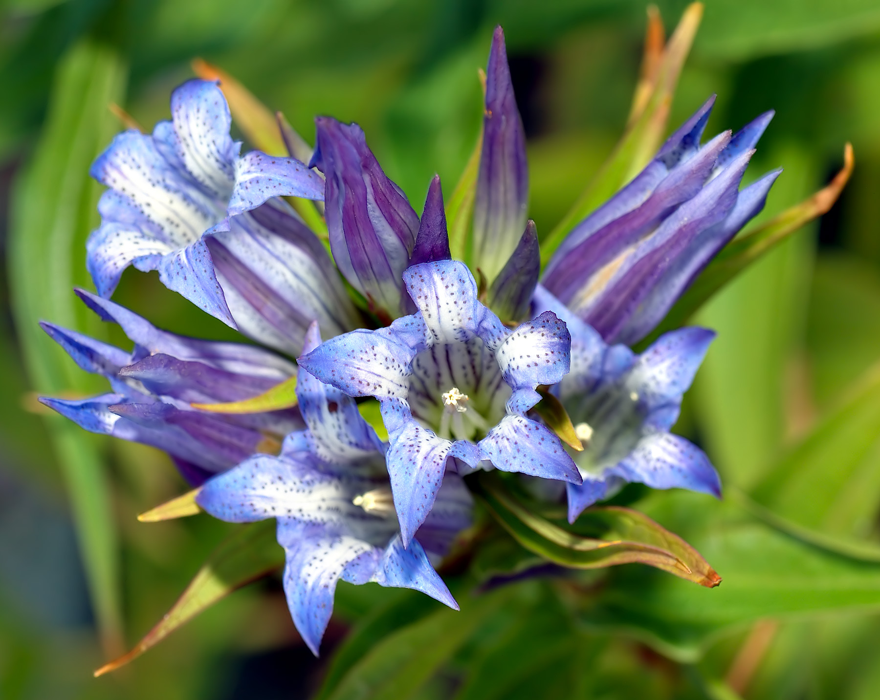 This image shows the blossom of a Willow Gentian (Gentiana asclepiadea).